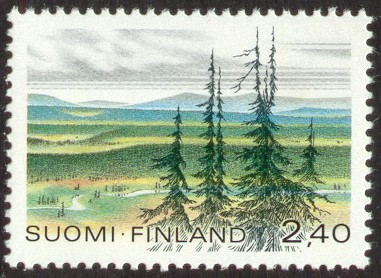 Finnish nature park - Urho Kekkonen